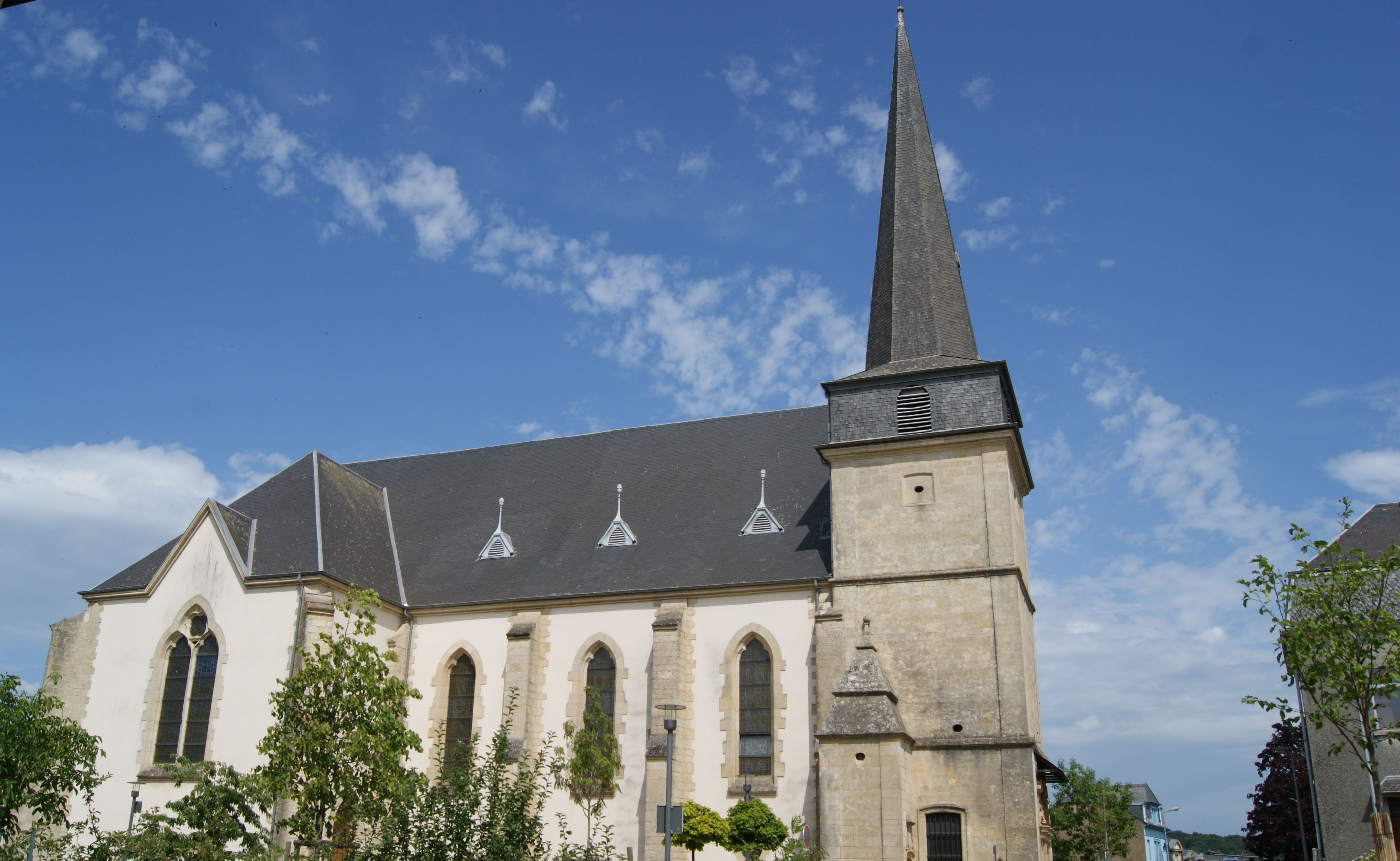 Church in Oberkorn (Differdange, Luxembourg) to St. Stephen.